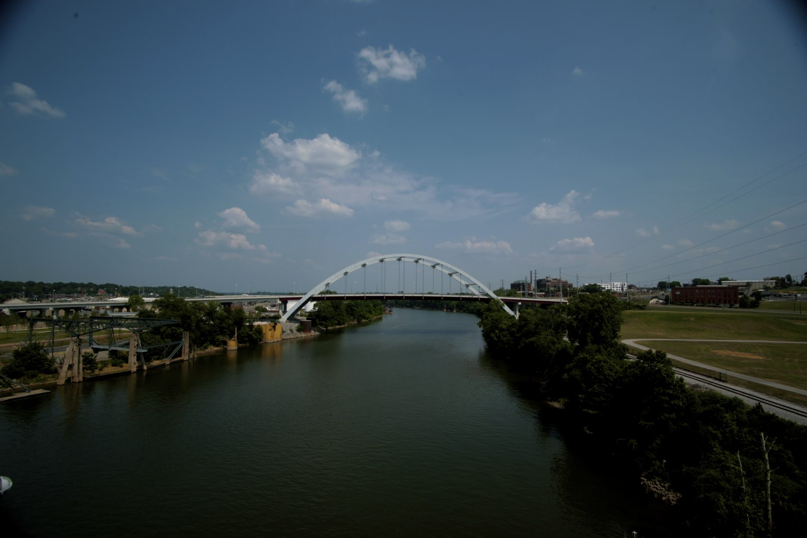 View of Gateway Bridge in Nashville over Cumberland River